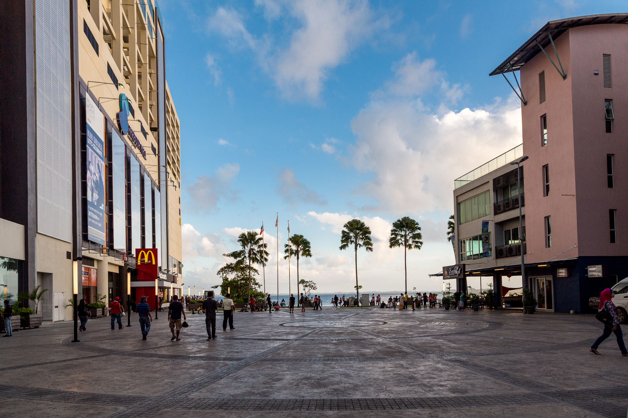 Sandakan (Sabah): Harbour Square)